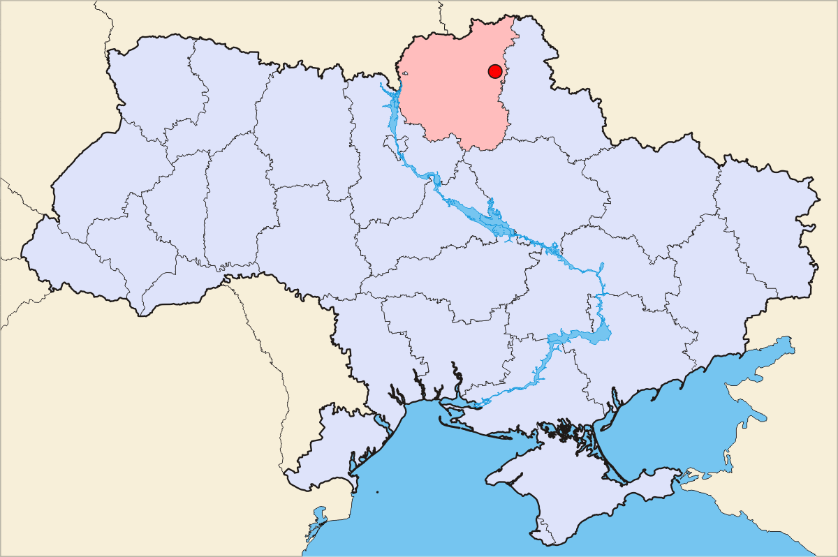 Chernihiv geographical position Colours chosen according to a map of steschke